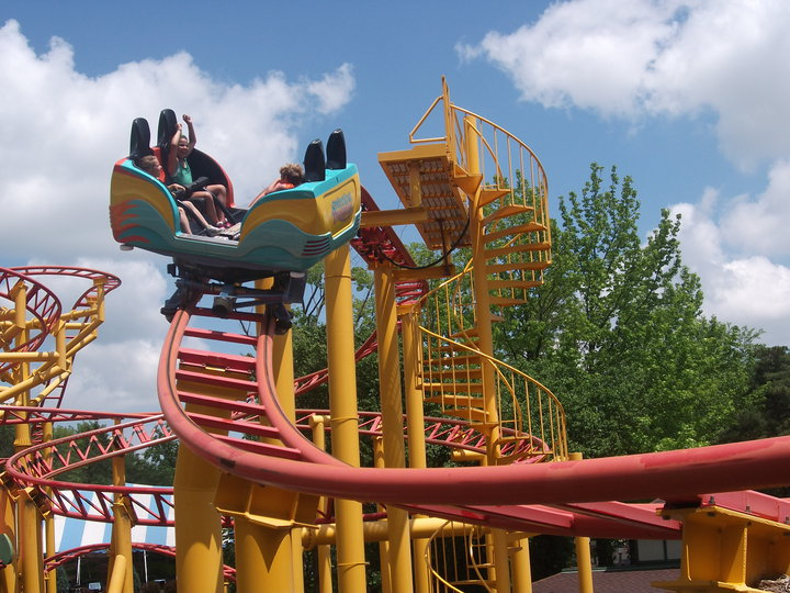 Visitors having fun on Spinning Dragons.